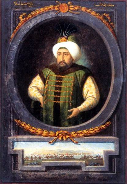 Mehmed IV